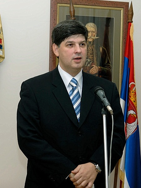 Former Serbian Minister of Internal Affairs Dragan Jočić in 2006